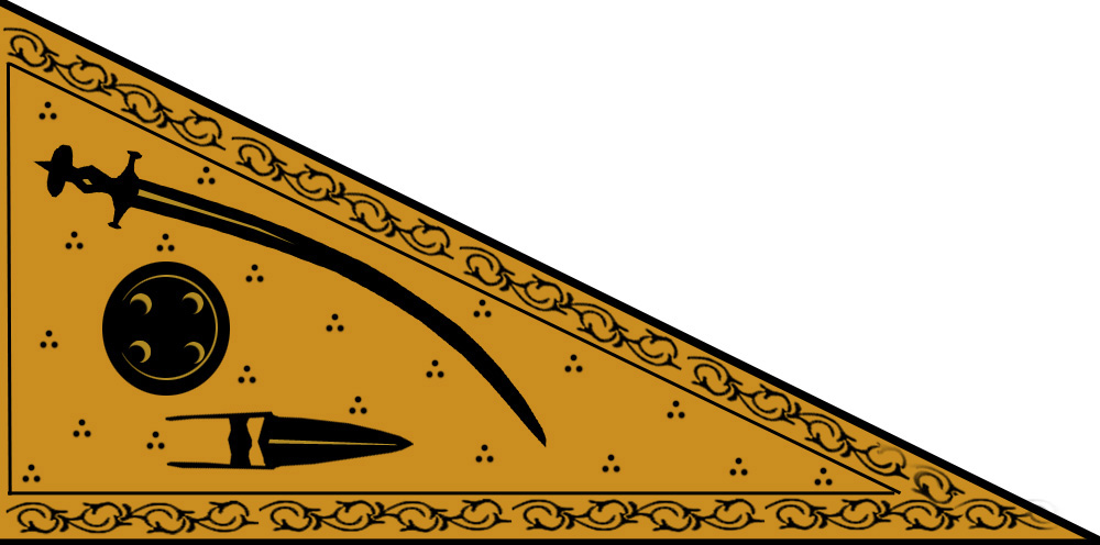 Sikh warrior Flag pre-1850s, its creations is attributed to Guru Gobind Singh